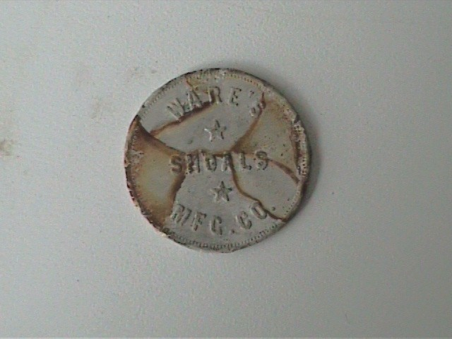 Photo by Bill Shannon, 2003. Photo shows script owned by Maynard Pittendreigh. Scrip was used as currency in textile mill towns. It was good for use only in the company store.